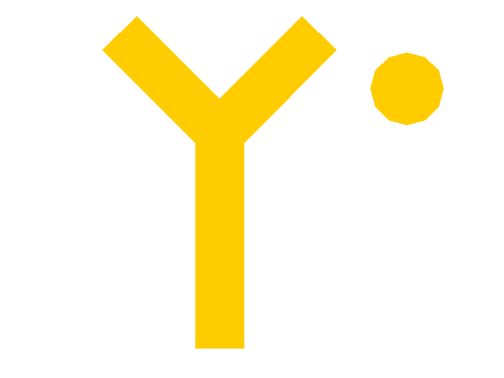 Mark of Ww2 GermanDivision Panzer 8 - 1940